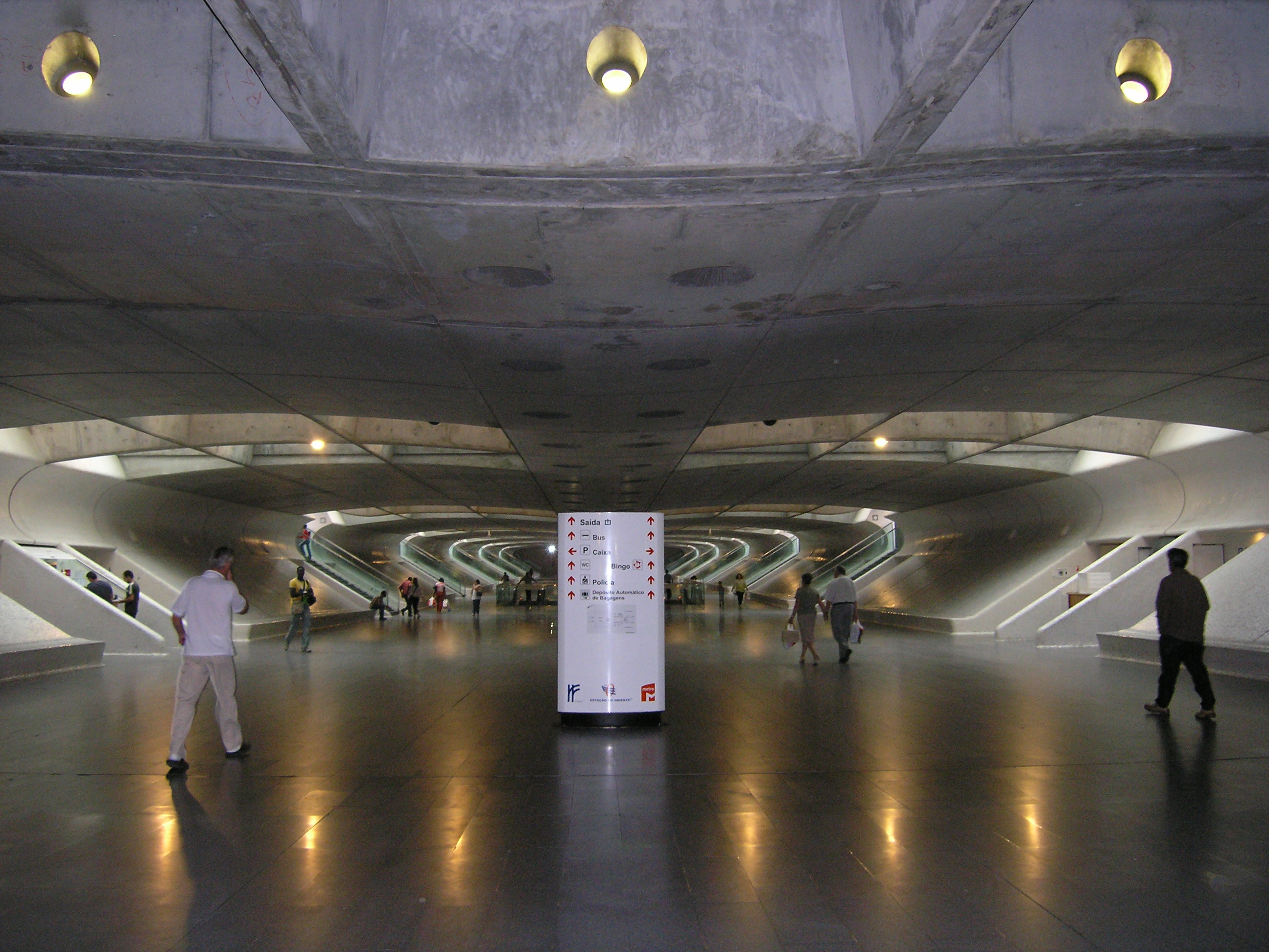 Gare do Oriente train station, Lisbon, Portugal